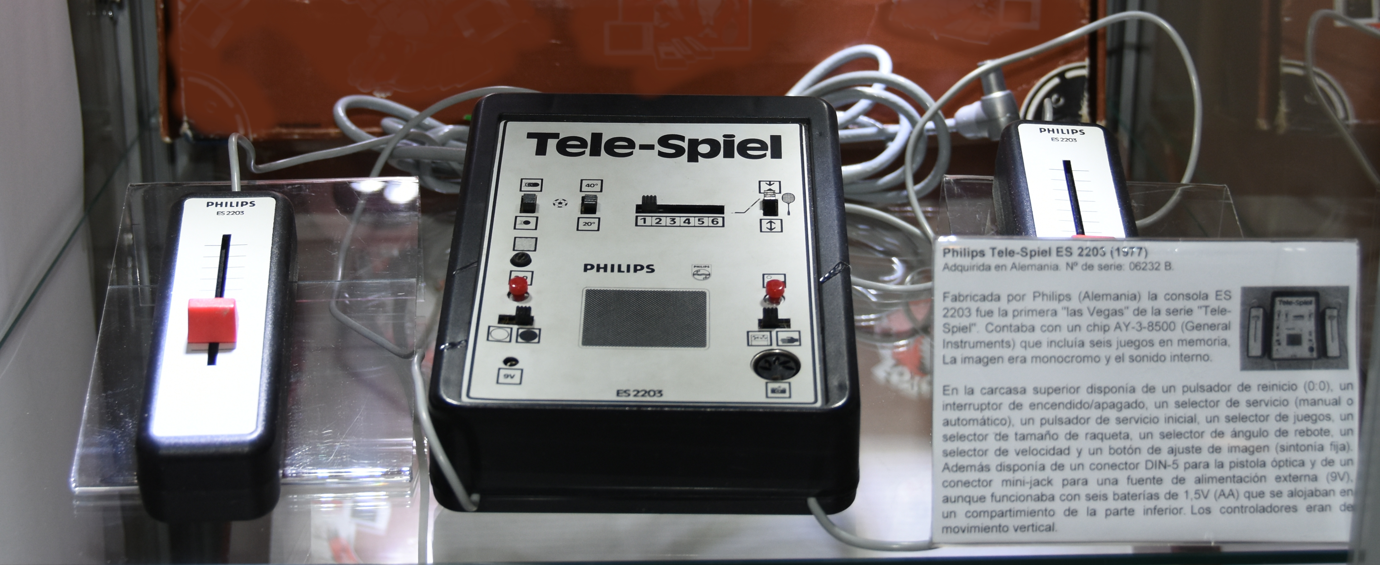 Philips tele-spiel ES-2203 las vegas. Pong console [Fotos por cortesía de Fernando Sáenz]